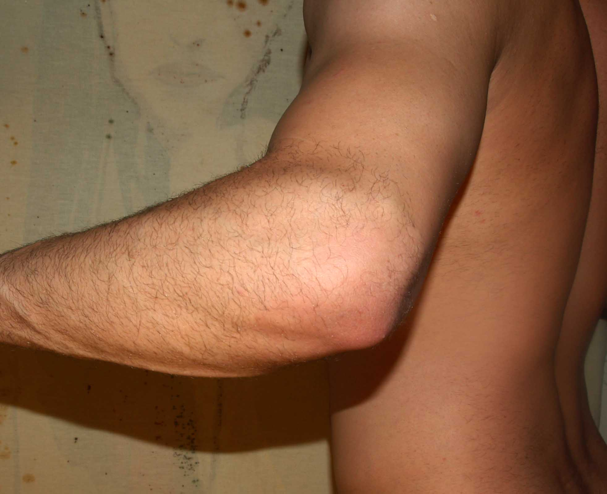 Elbow by David Shankbone